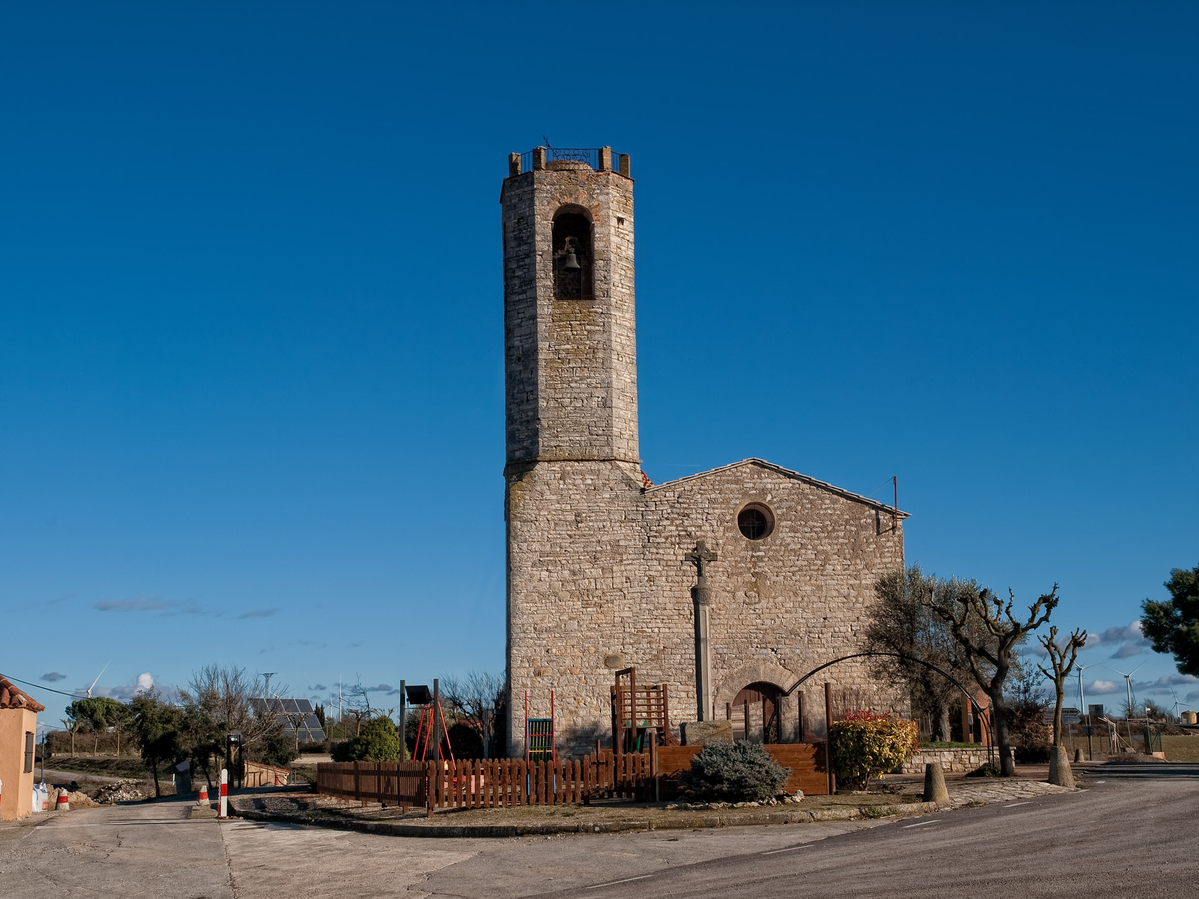 Sant Andreu church of Pujalt (Catalonia, Spain)